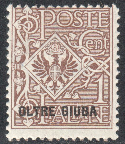 Italy Oltre Giuba (protectorate Italian Jubaland) 1c, mint. catalogue: Sc. 1